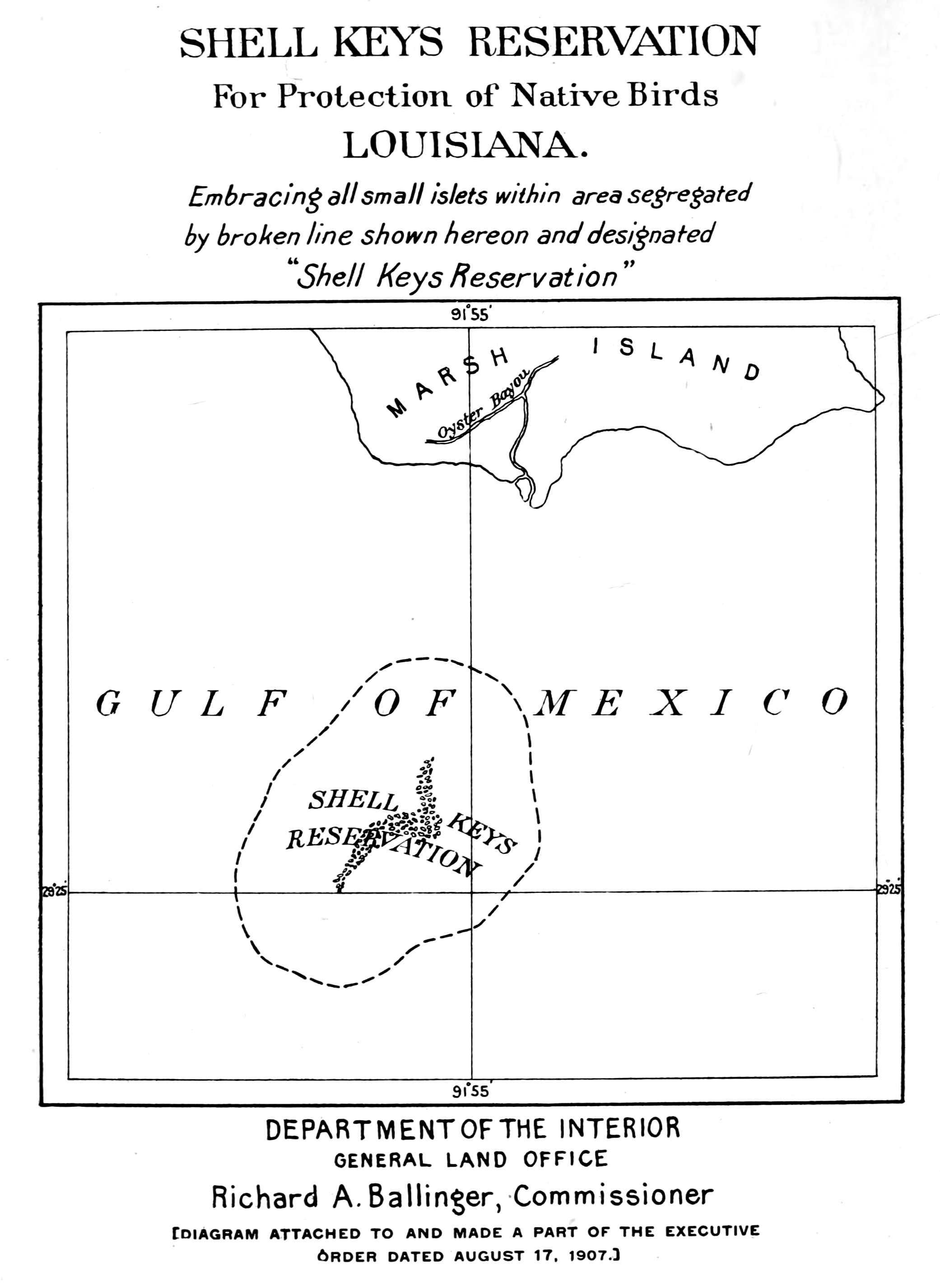 Illustration of the Shell Keys Reservation, in the Gulf of Mexico south of Marsh Island, Louisiana. This map is an attachment to Executive Order 682 which originally defined the reservation in 1907 (which is today the Shell Keys National Wildlife Refuge).